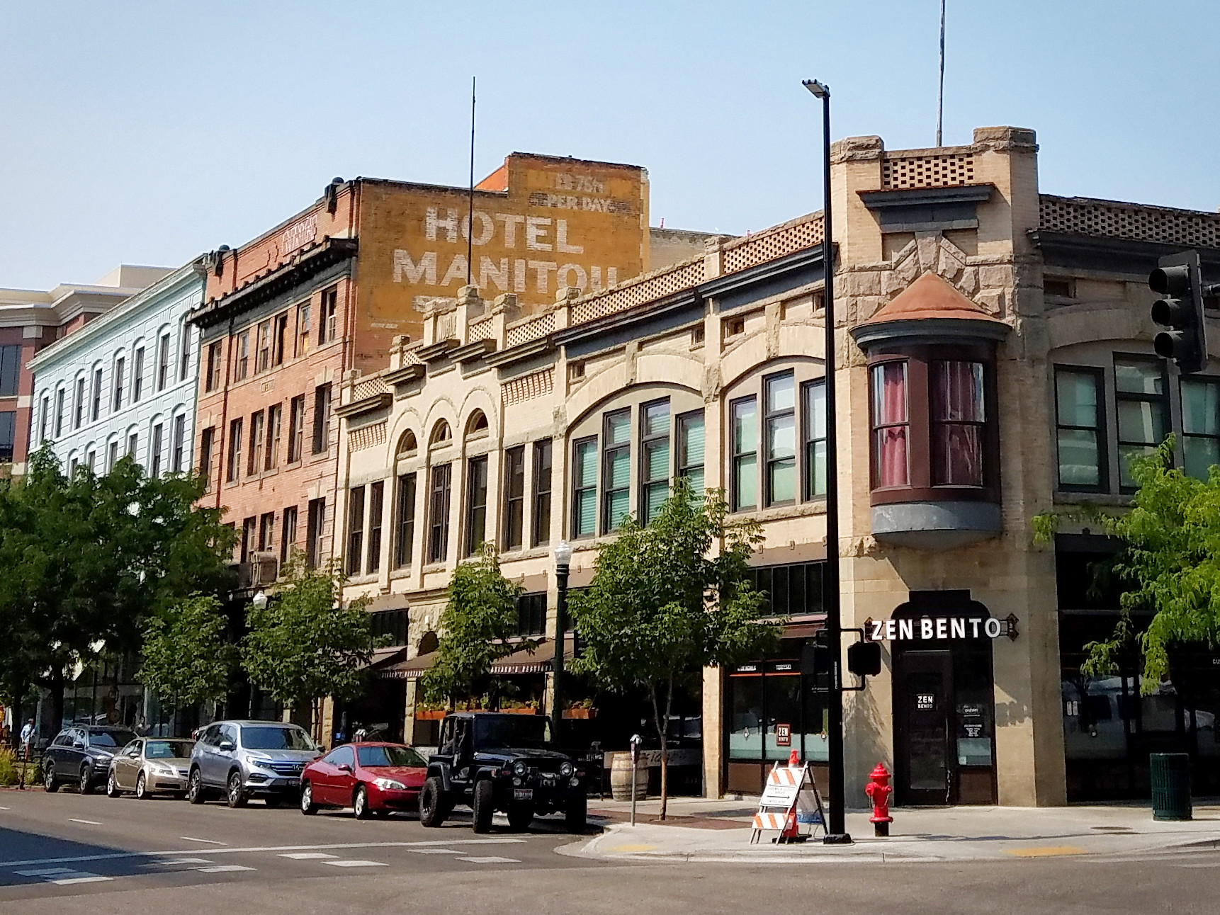 From West Main Street and South 10th Street looking west -- Gem Block (1902), Noble building (1902), Averyl building (1910), and Alaska building (1906). The Averyl building, designed by Wayland & Fennel is also known as the Tiner building or the Hotel Manatou, indicated by a ghost sign.